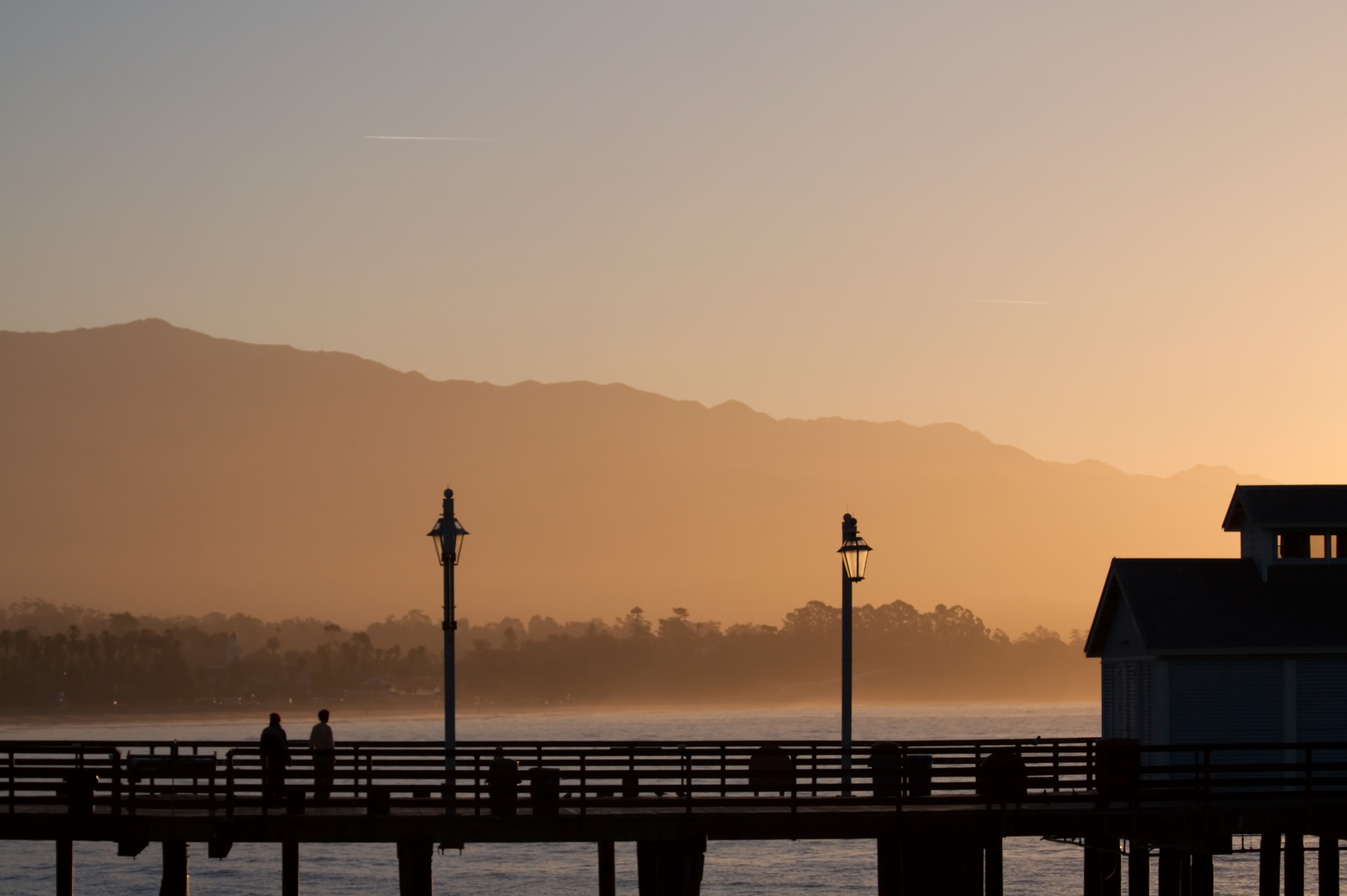 Sunrise on the Stearns Wharf, Santa Barbara, California.